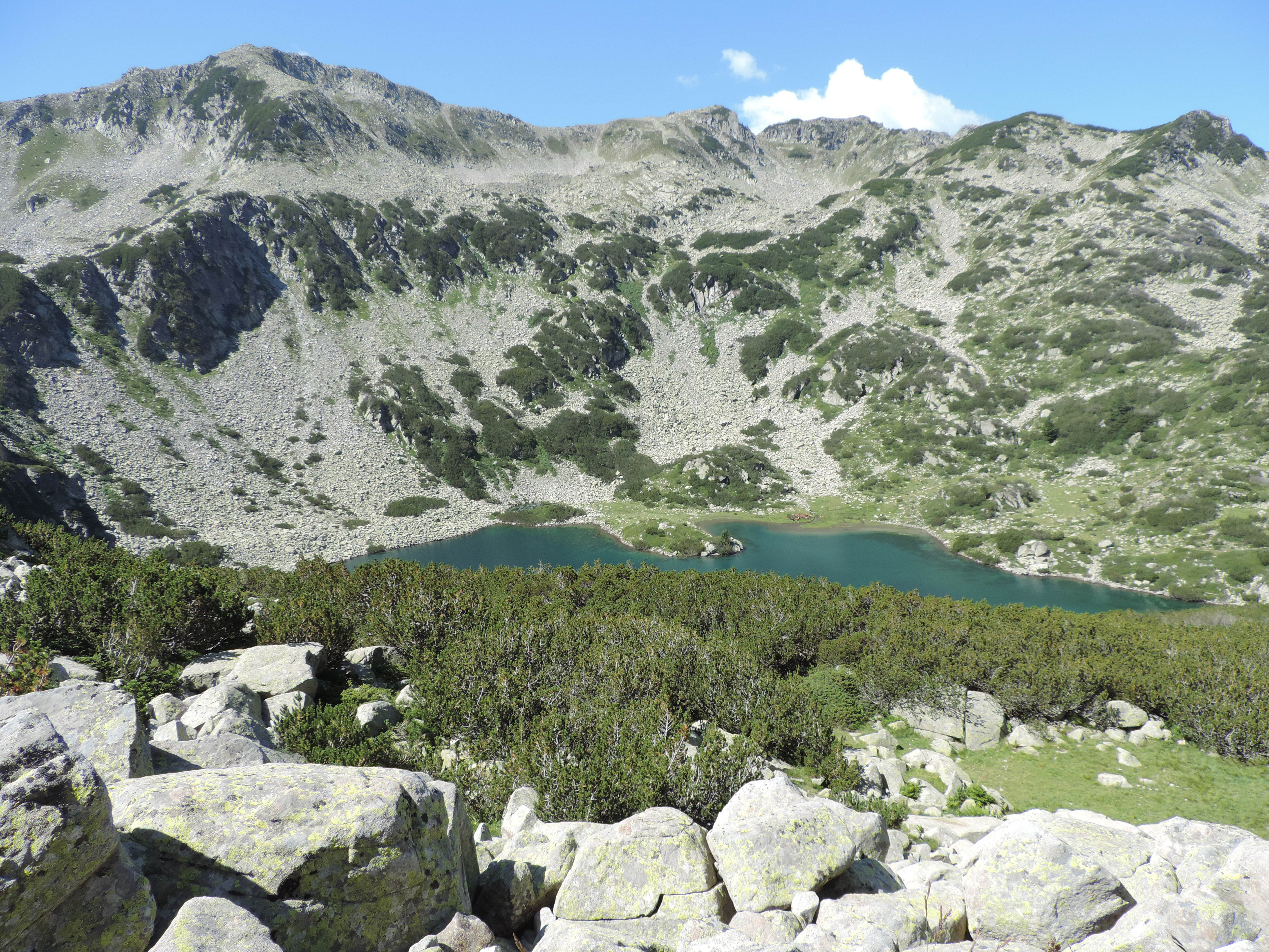 Fish Banderishko lake, Pirin National Park, Bulgaria